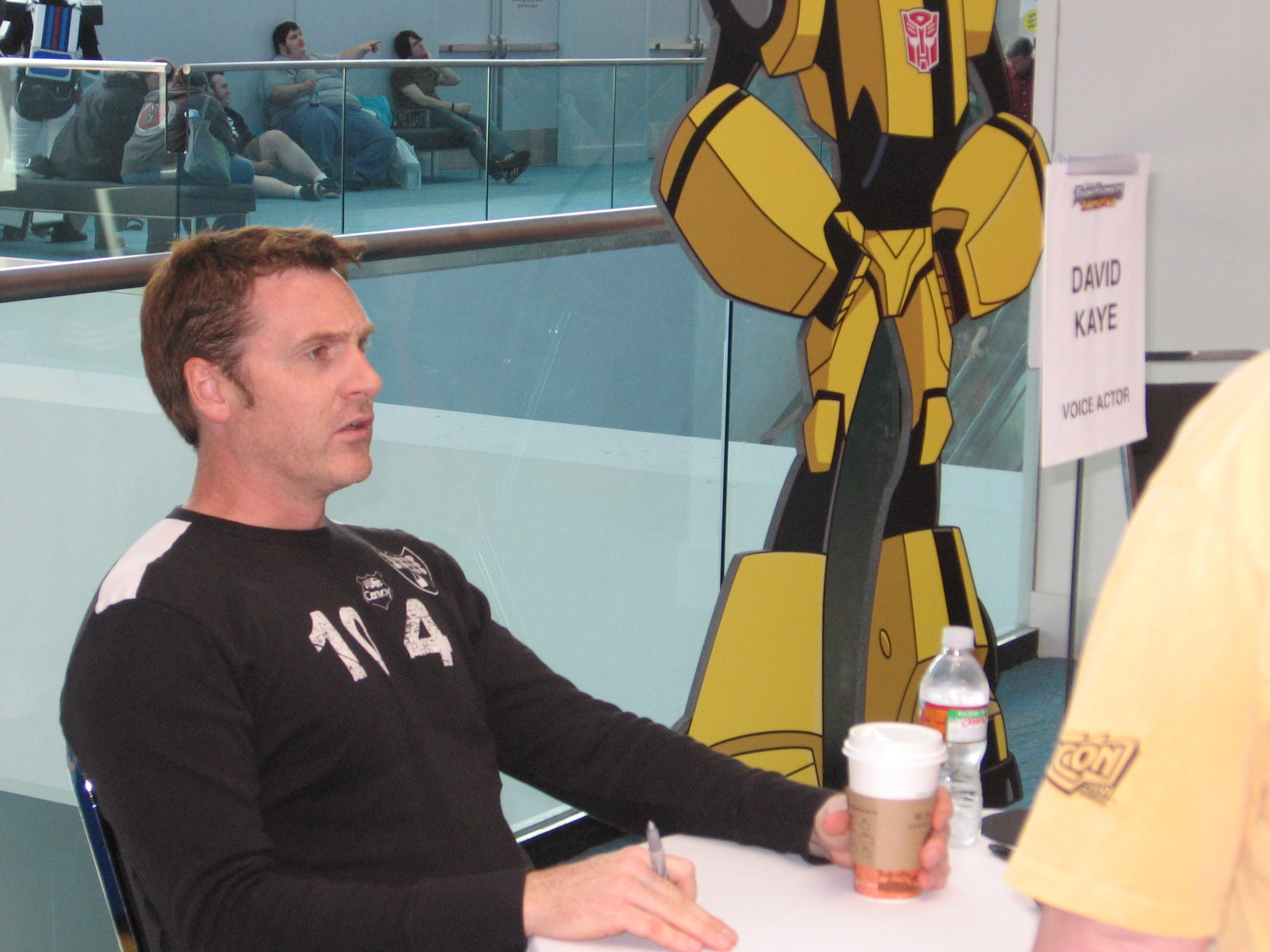 David Kaye at an autograph session at Botcon 2008 in Cincinnati, Ohio.